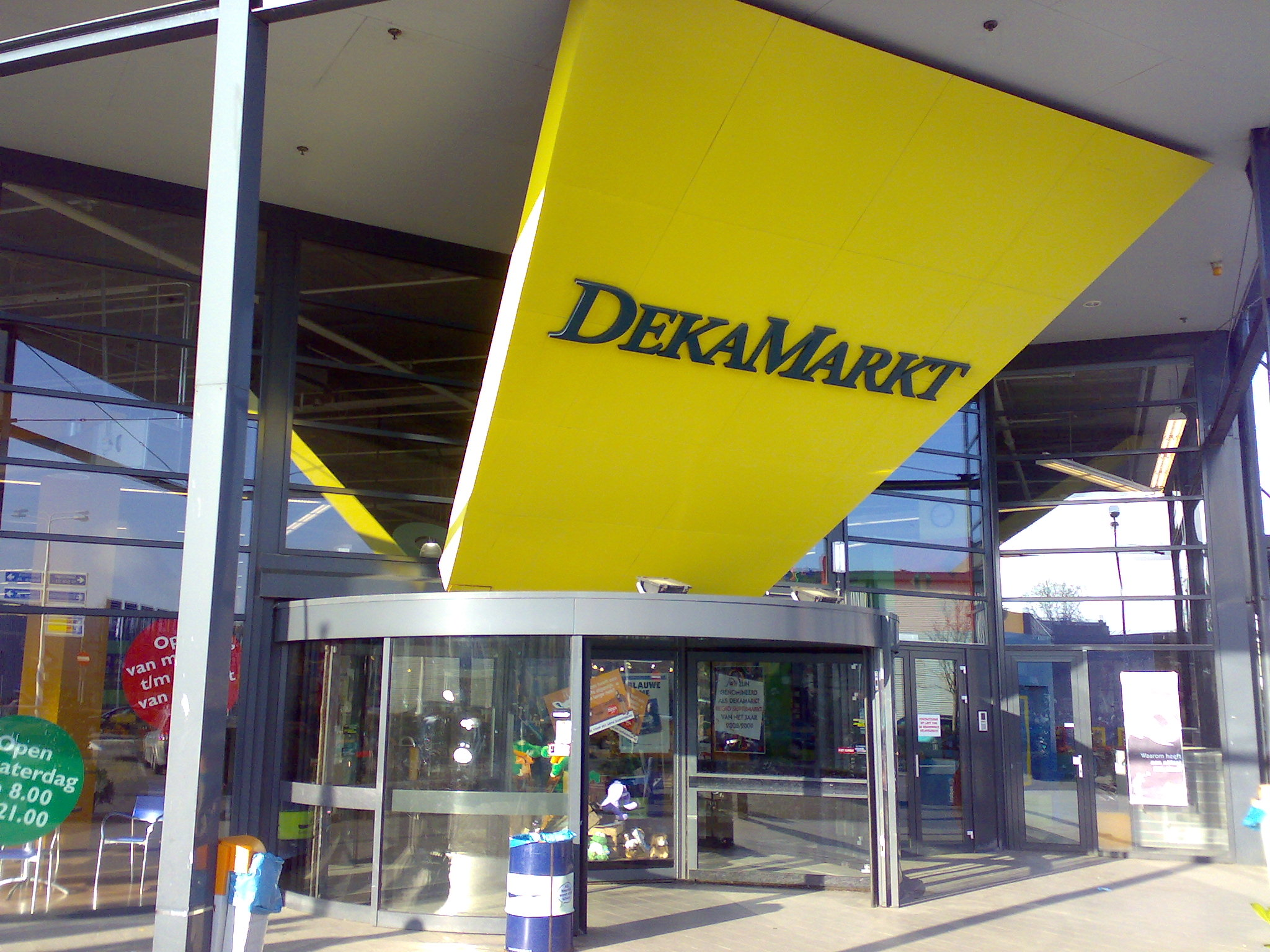 Shows the supermarket Dekamarkt at the "Marlo-terrein", Beverwijk, The Netherlands